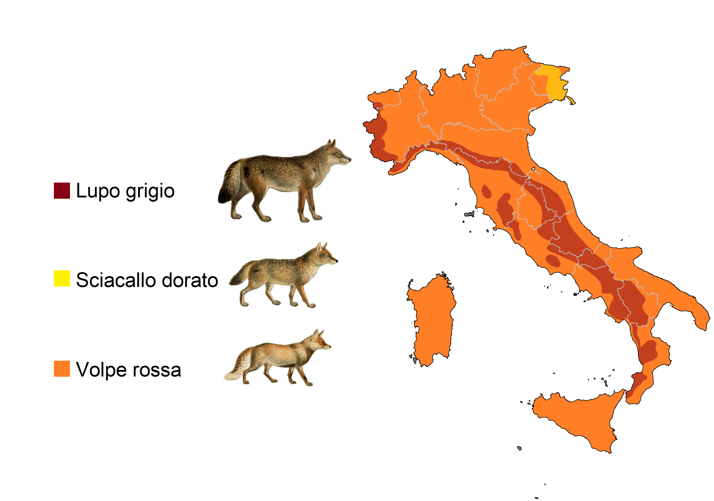 Distribution of Italian canids